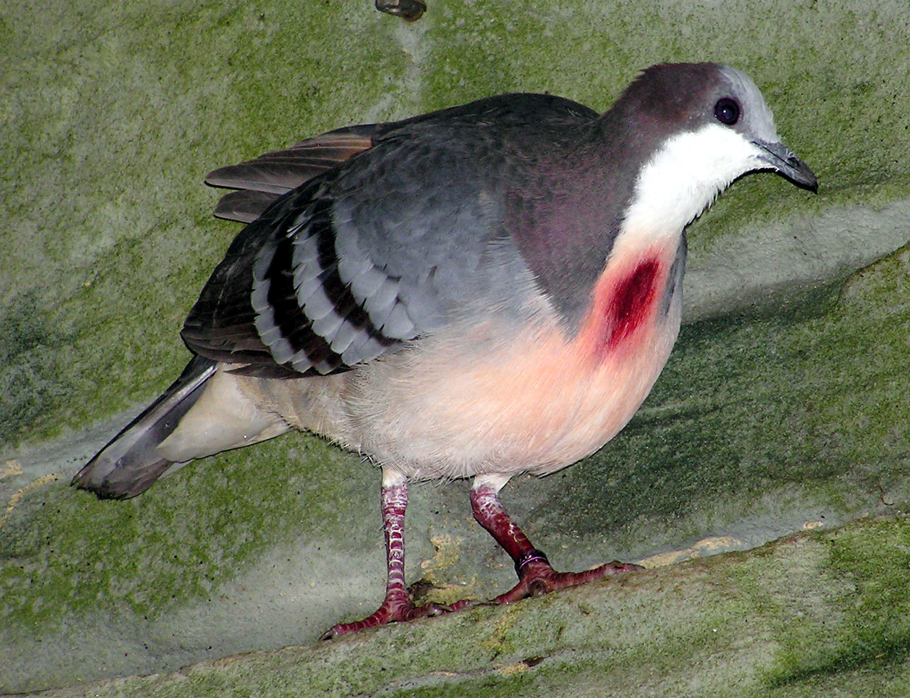 Luzon Bleeding Heart Dove in the Wallace Aviary at Bristol Zoo, Bristol, England.